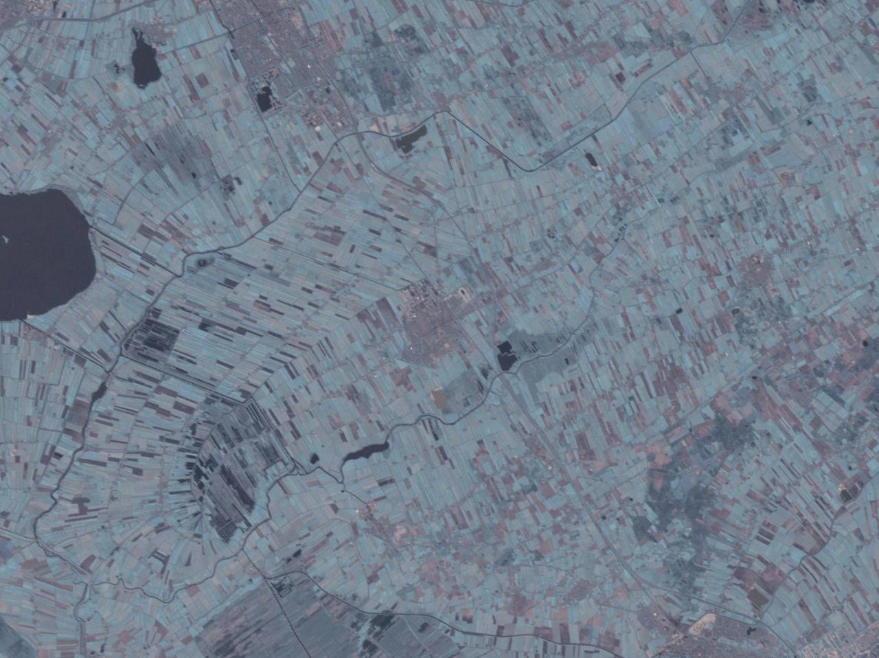 Wolvega, Netherlands. Satellite view.